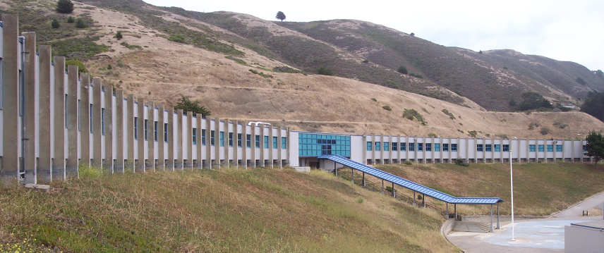 Oceana High School, Pacifica, California, building panoramic